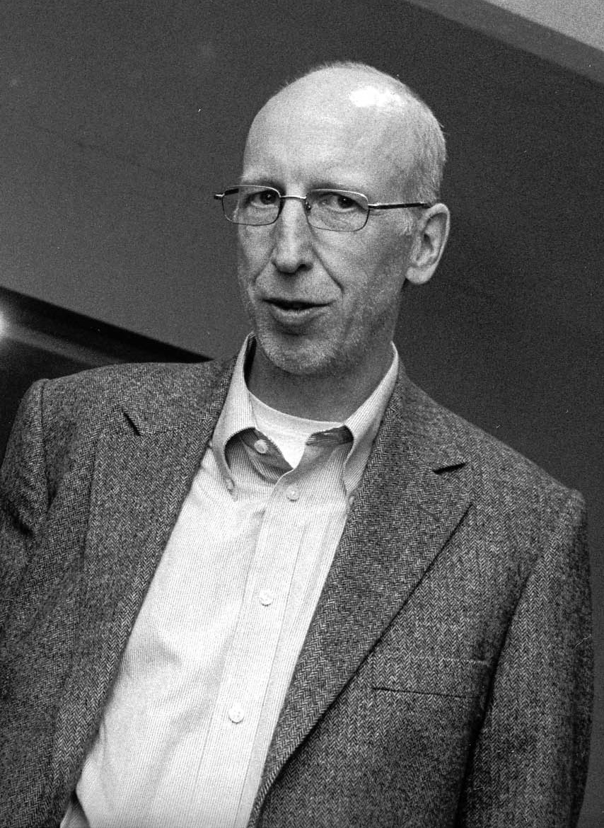 Portrait of Johannes Heisig 2007 by Axel Küstner, Bad Gandersheim